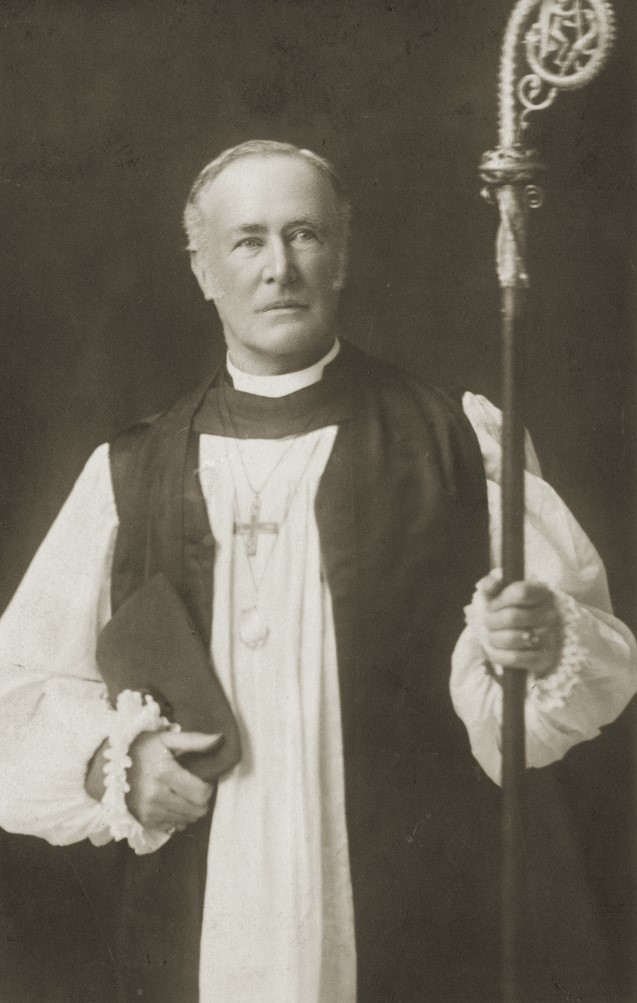 Portrait of George Kennion. Dates from 1919. Cropped from